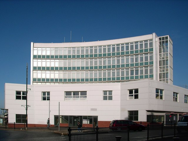 Locally known as the Town Centre Has recently been revamped